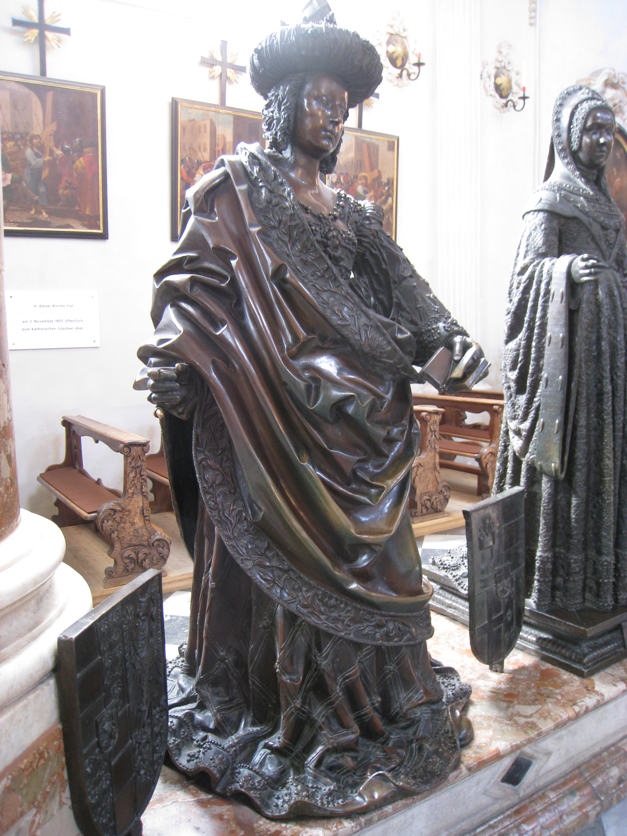 Statue within Hofkirche, Innsbruck, Austria. This statue is old enough so that it is not covered by any copyright.